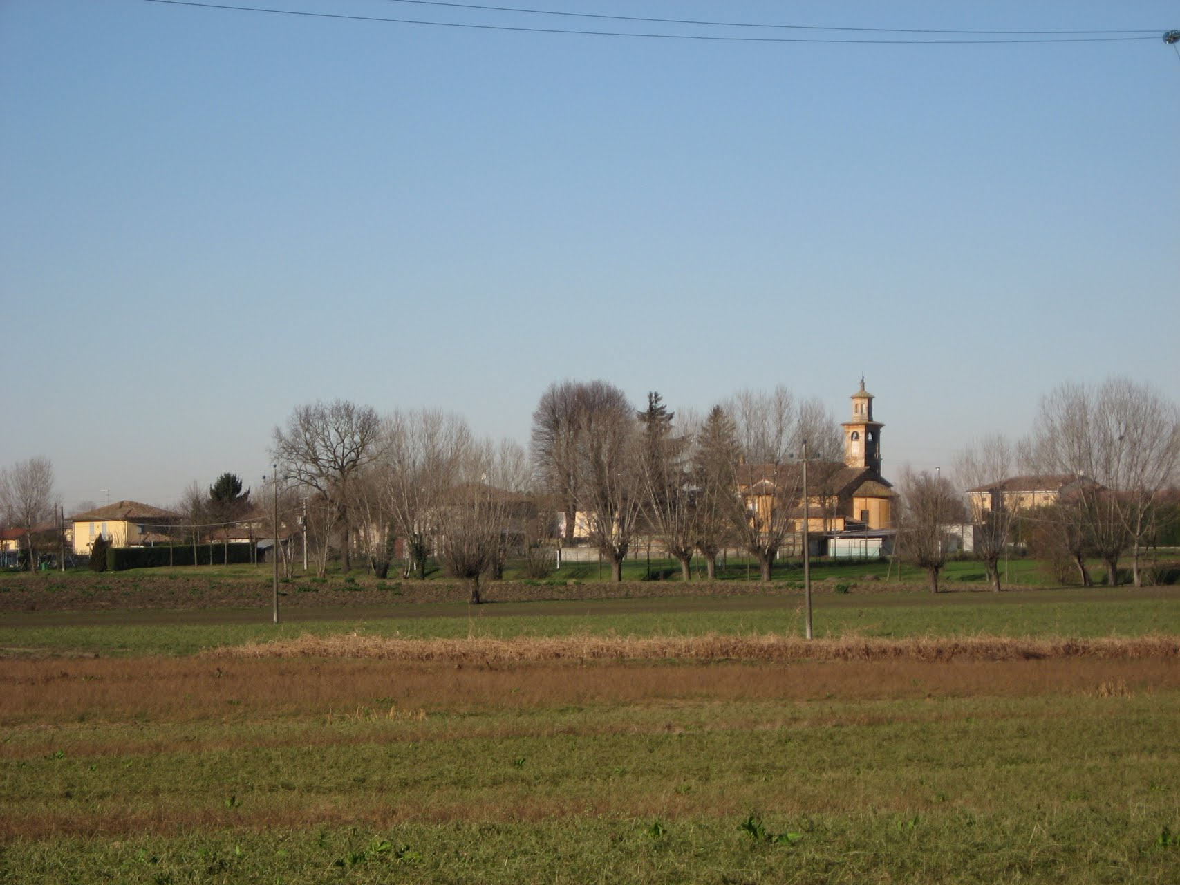 Castell'Aicardi Village